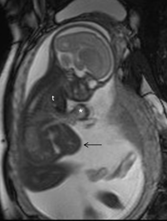 Original caption: "Fetal MRI using single shot turbo spin echo, shows the heart in an ectopic position (*) and eventration of a part of the liver at the midline (arrow). Notice the small thoracic cavity (t). No malformation of the central nervous system could be seen."